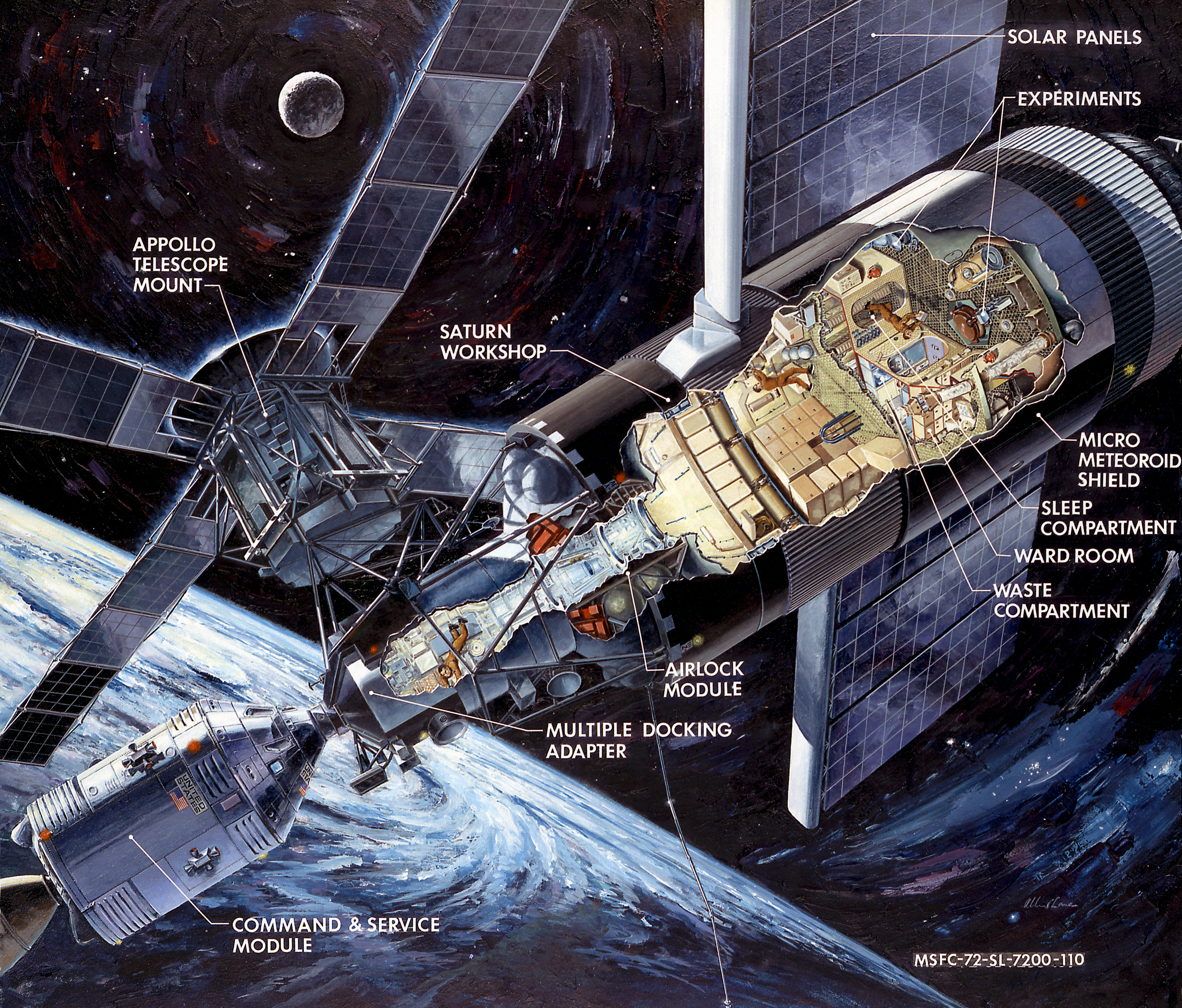 This artist's concept is a cutaway illustration of the Skylab with the Command/Service Module being docked to the Multiple Docking Adapter. In an early effort to extend the use of Apollo for further applications, NASA established the Apollo Applications Program (AAP) in August of 1965. The AAP was to include long-duration Earth orbital missions during which astronauts would carry out scientific, technological, and engineering experiments in space by utilizing modified Saturn launch vehicles and the Apollo spacecraft. Established in 1970, the Skylab Program was the forerunner of the AAP. The goals of the Skylab were to enrich our scientific knowledge of the Earth, the Sun, the stars, and cosmic space; to study the effects of weightlessness on living organisms, including man; to study the effects of the processing and manufacturing of materials utilizing the absence of gravity; and to conduct Earth resource observations. The Skylab also conducted 19 selected experiments submitted by high school students. Skylab's 3 different 3-man crews spent up to 84 days in Earth orbit. The Marshall Space Flight Center (MSFC) had responsibility for developing and integrating most of the major components of the Skylab: the Orbital Workshop (OWS), Airlock Module (AM), Multiple Docking Adapter (MDA), Apollo Telescope Mount (ATM), Payload Shroud (PS), and most of the experiments. MSFC was also responsible for providing the Saturn IB launch vehicles for three Apollo spacecraft and crews and a Saturn V launch vehicle for the Skylab.